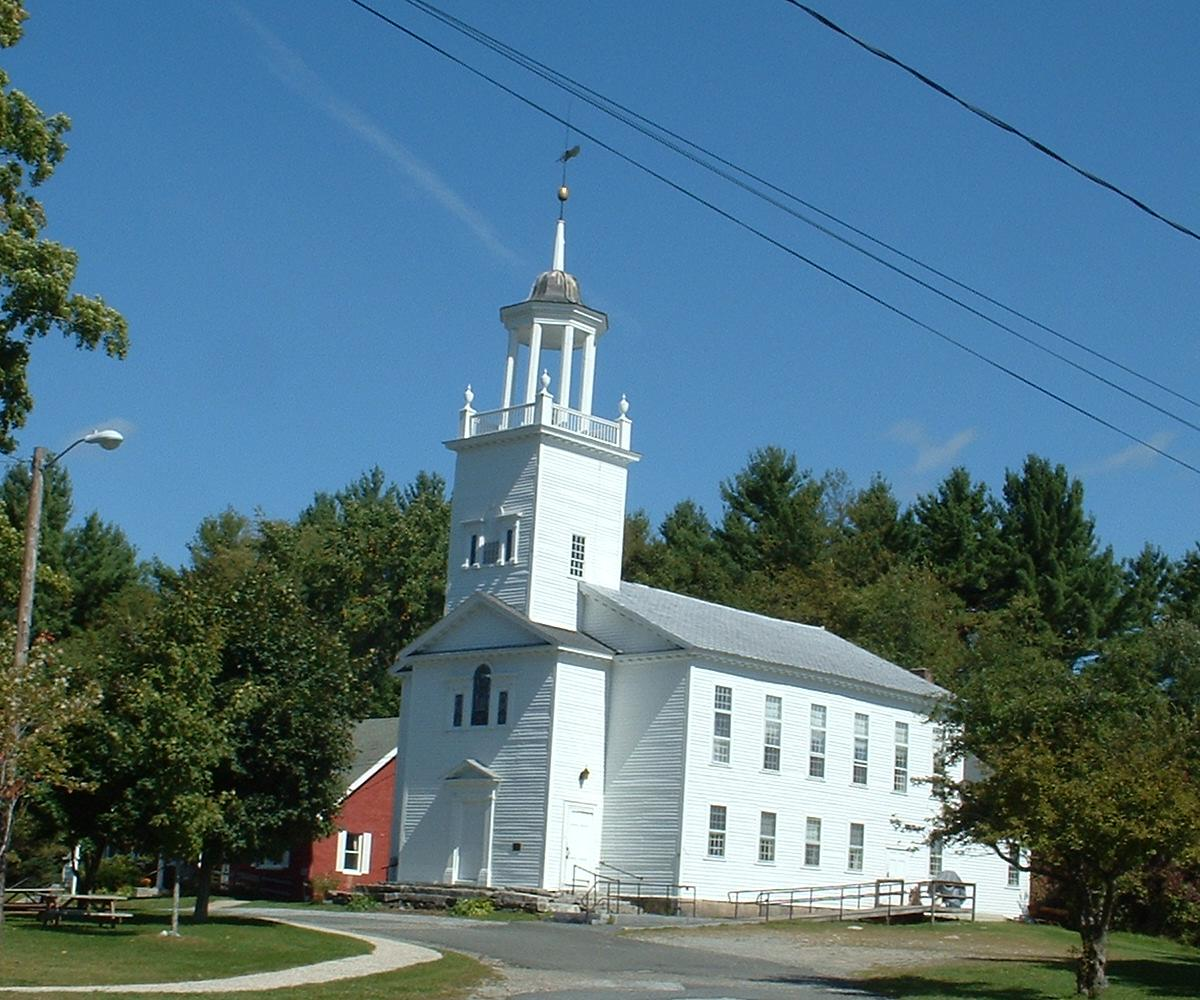 The First Congregational Church of Otis, Massachusetts First Congregational Church, Main Rd (Rte. 8), OTis, MA